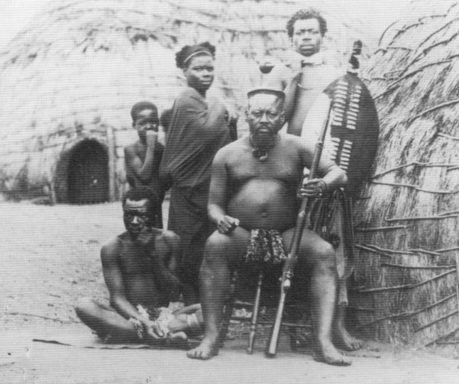 One of only two photographs known to exist of Ntshingwayo kaMahole, the victorious Zulu general who defeated the British at Isandlwana in 1879. The photo was taken in 1879 during the First Anglo-Zulu War. For use on the Ntshingwayo kaMahole Wikipedia page.